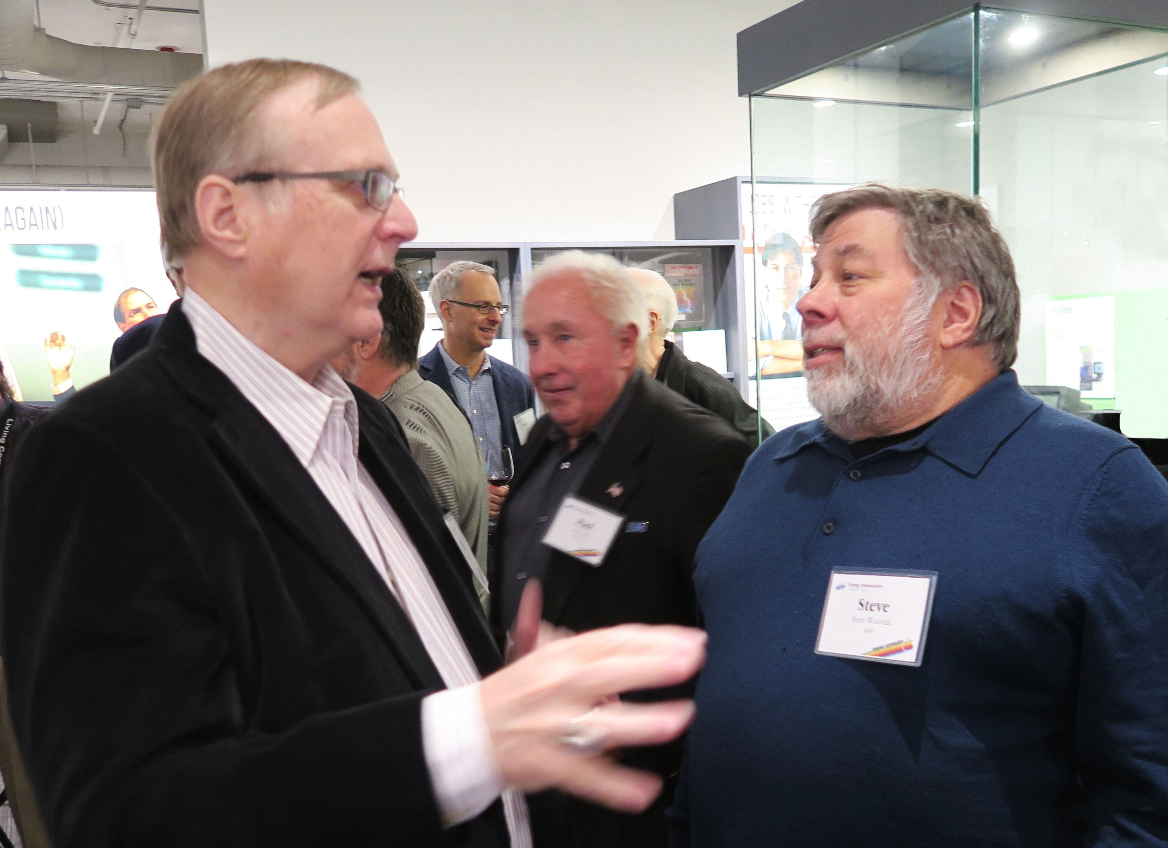 Paul Allen and Steve Wozniak meeting for the first time at the Living Computer Museum on April 12, 2017